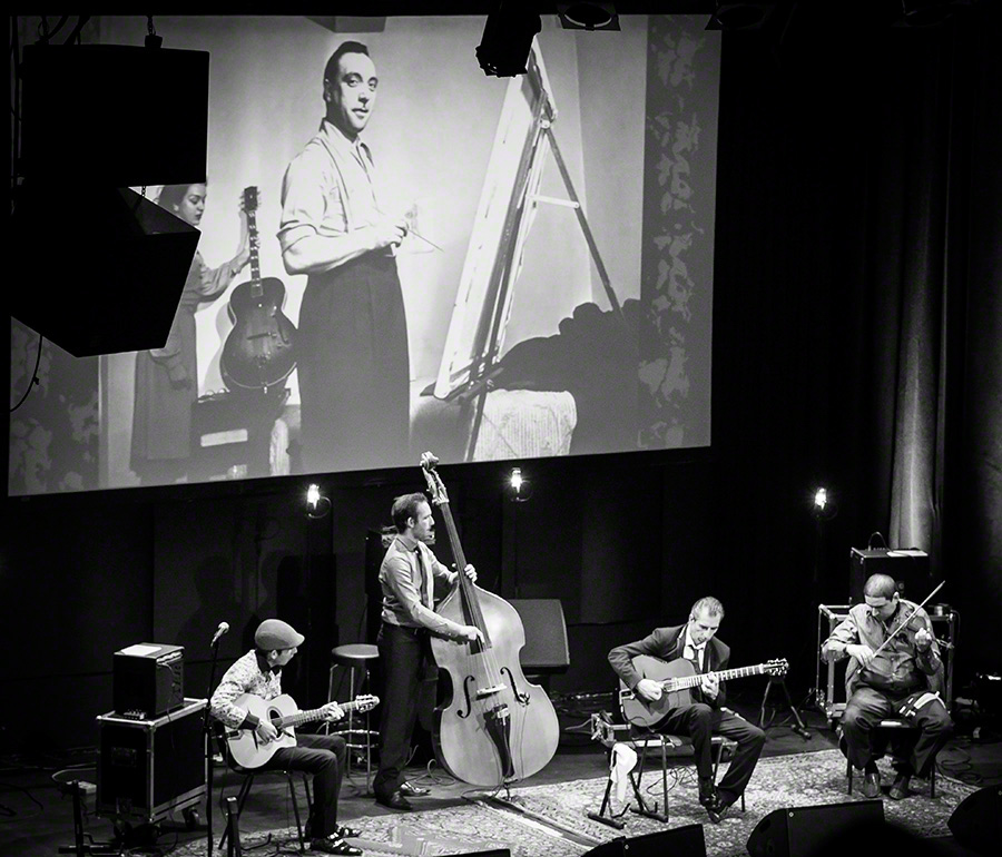 Angelo Debarre quartet performs at Cosmopolite during the Django festival 2016. From left: Ranji Debarre guitar (son of Angelo Debarre), William Brunard bass, Angelo Debarre and Marius Apostol violin. Django projected on the large screen.